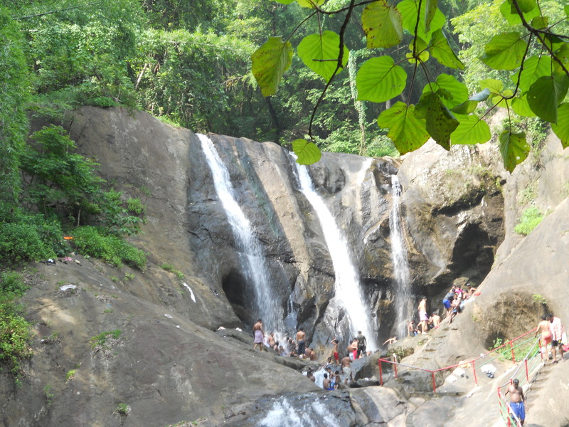 Kumbavuruty water falls